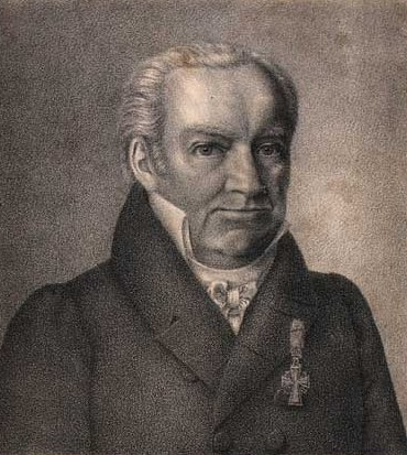 The physician Johan Daniel Herholdt